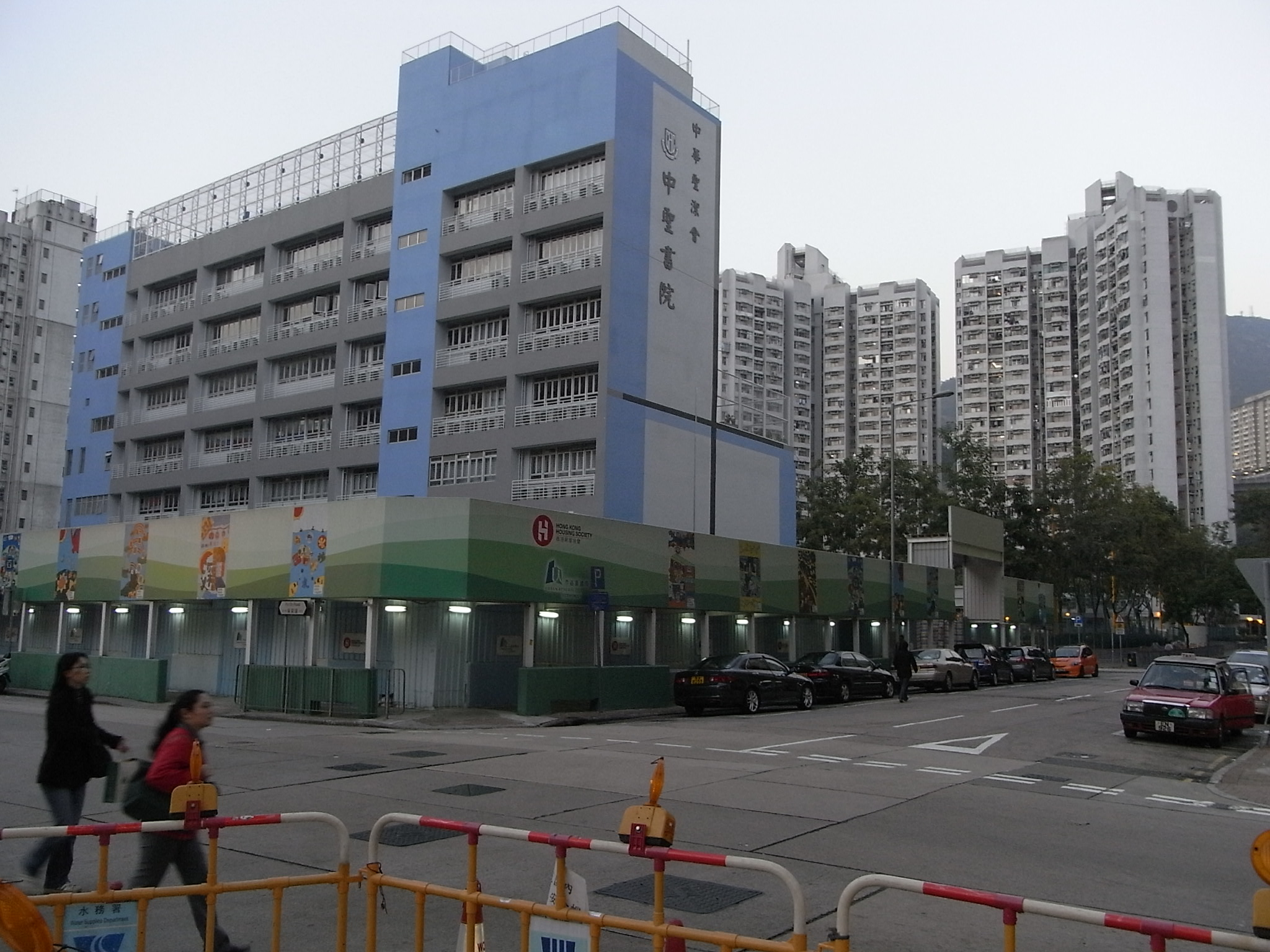 深水埗 中聖書院位於 保安道 & 東沙島街 交界